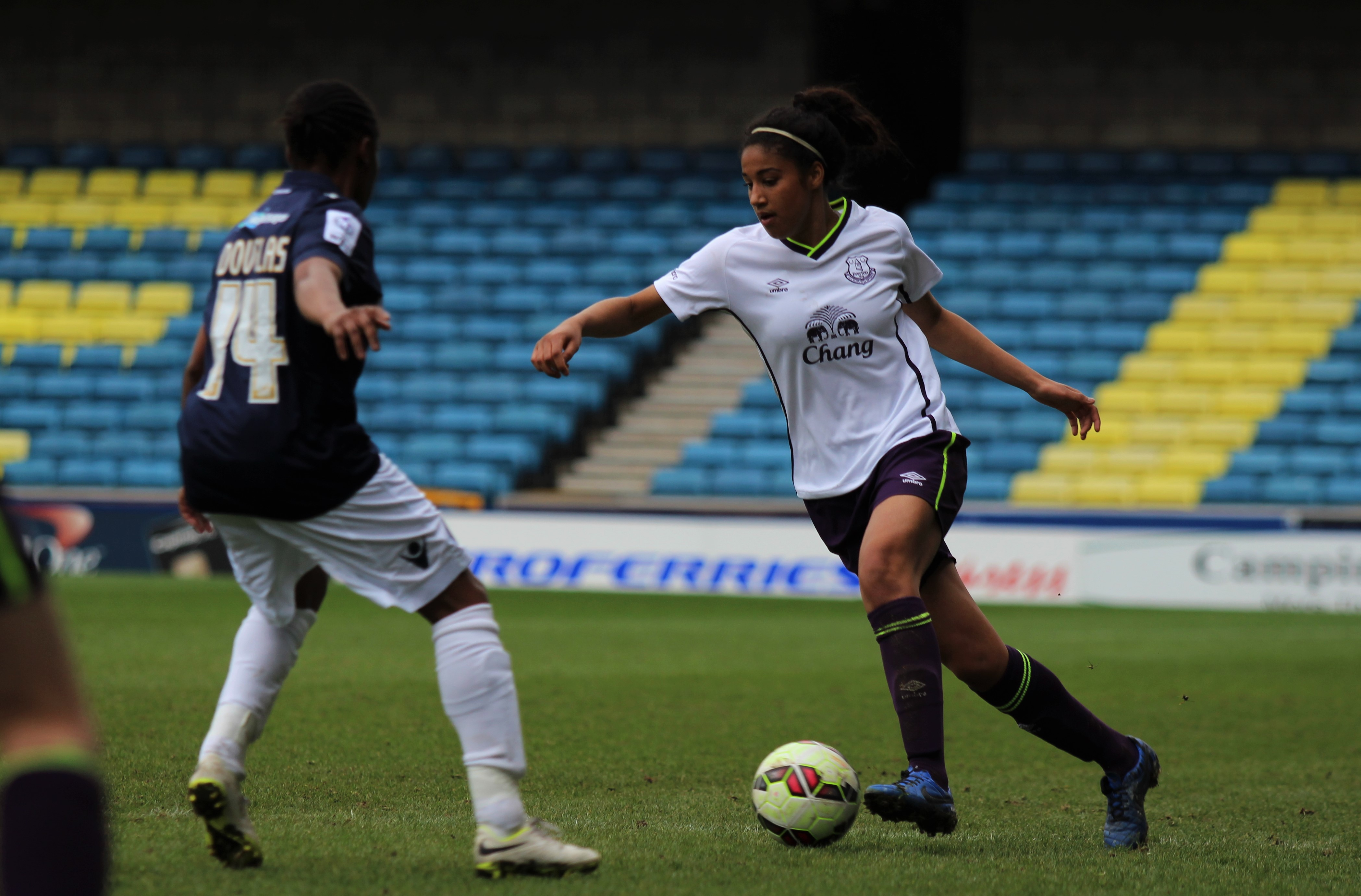 Gabby George of Everton Ladies on the ball against Millwall Lionesses.